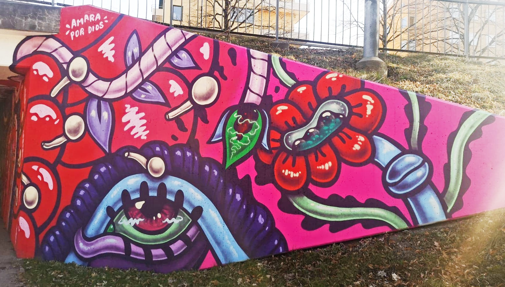 Mural art by street artist Amara Por Dios